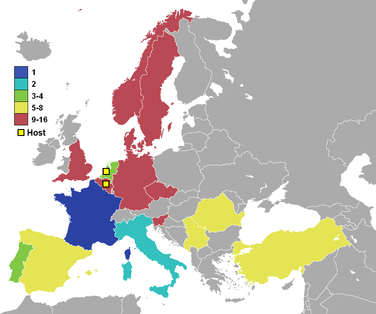 UEFA Euro 2000 final team ranking, showing: Winner (dark blue) Runner-up (light blue) Semifinalists (light green) Quarterfinalists (yellow) Group stage (red) Yellow square is host nations (Netherlands and Belgium).